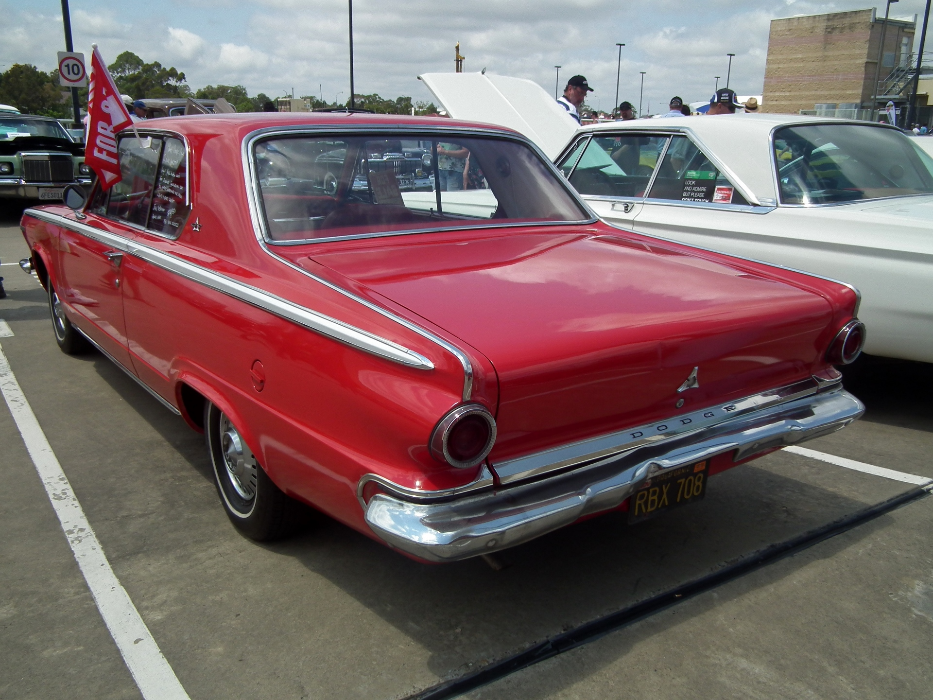 1964 Dodge Dart GT coupe. Taken at the 2014 New South Wales All American Day, held at Castle Towers Shopping Centre, Castle Hill, Sydney.